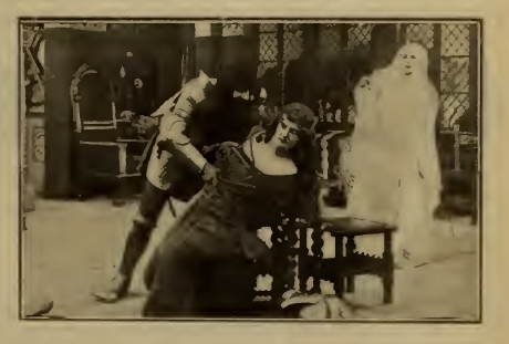 Publicity still from 'the 1912 film Mirakel, released as Sister Beatrix